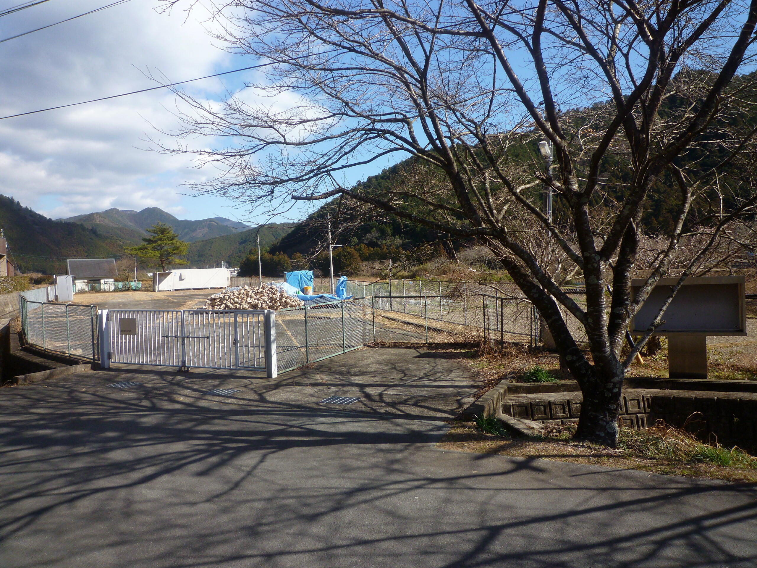 The "NTT Kisei Telephone Exchange Building" in Saki, Taiki Town, Watarai District, Mie Prefecture, Japan.